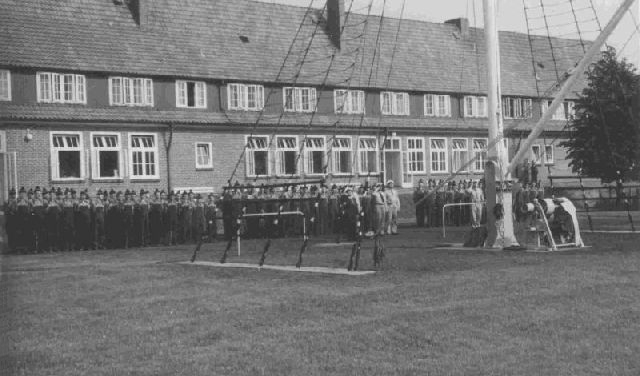 Former sailor School Bremervörde - morning report at the flagpole - August 1958